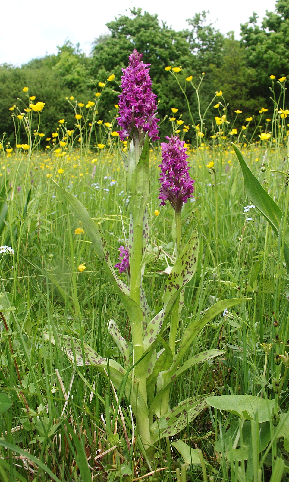 Dactylorhiza majalis, Virngrund , Germany